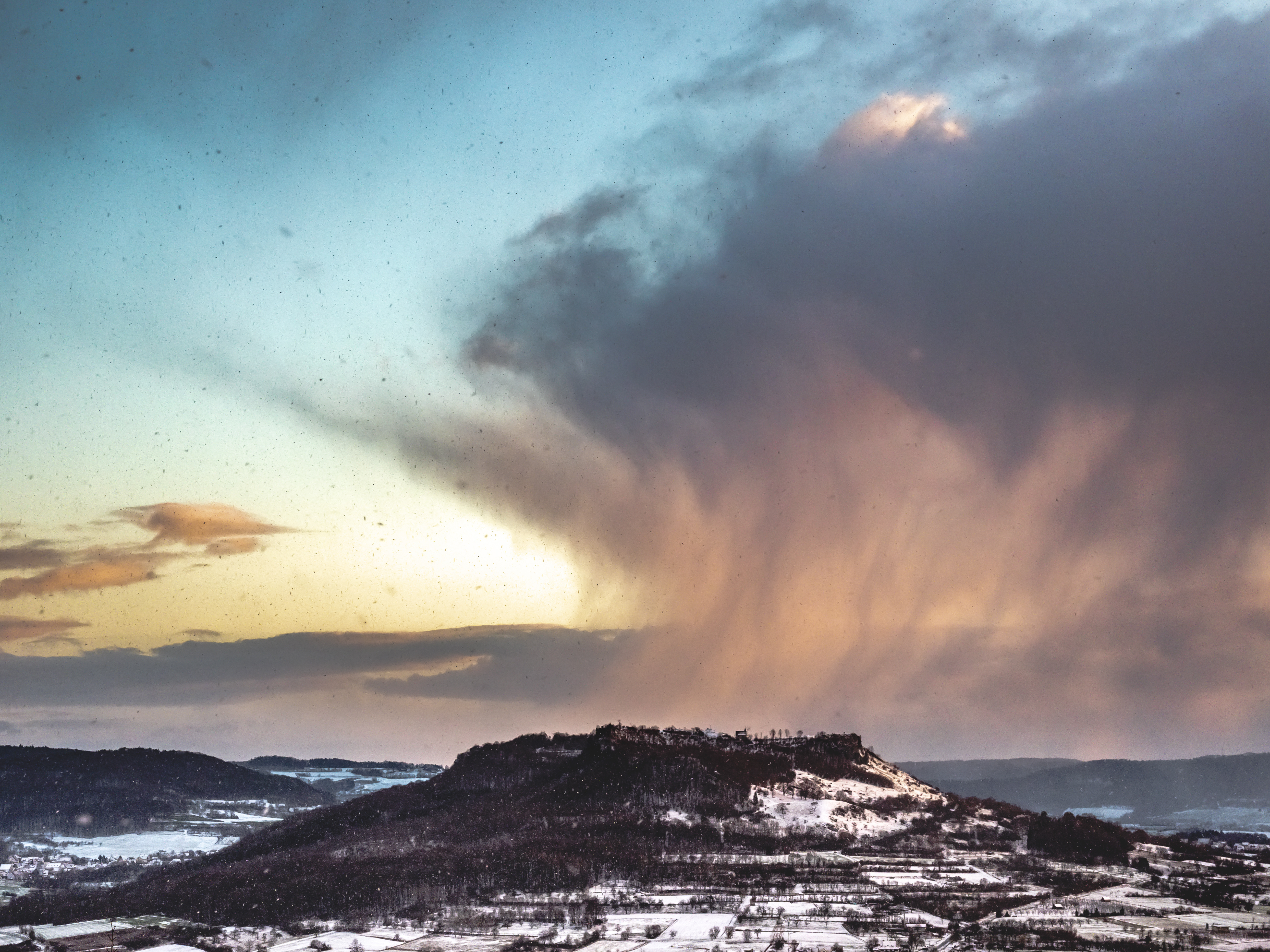 Snow showers over Ehrenbürg in Franconian Switzerland seen from Reifenberg